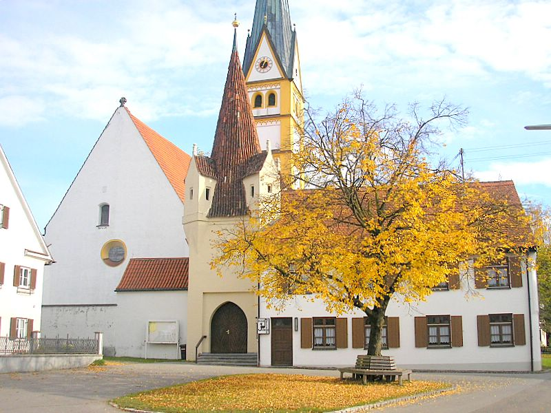 Prittriching near Landsberg am Lech (Upper Bavaria, Germany). Church of Our Lady with the fortified gate of the old cemetery